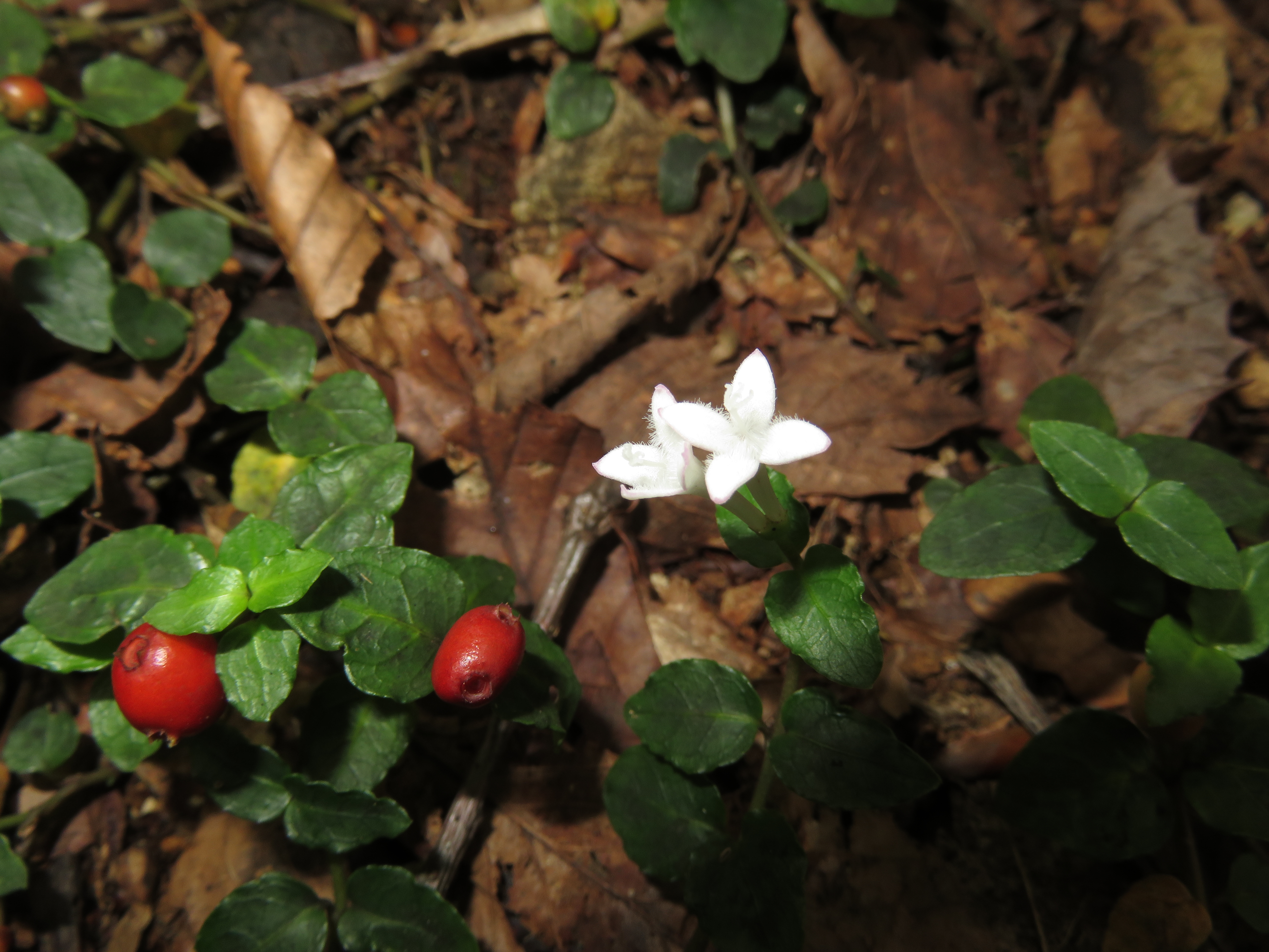 Mitchella undulata, Aizu area, Fukushima pref., Japan